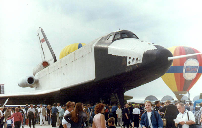 Atmospheric Buran testbed, MAKS, Zhukovskiy, 1999.